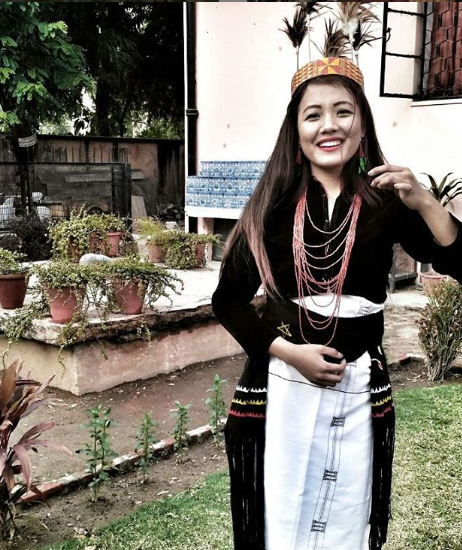 NorthE Guide Warshimmi Maring